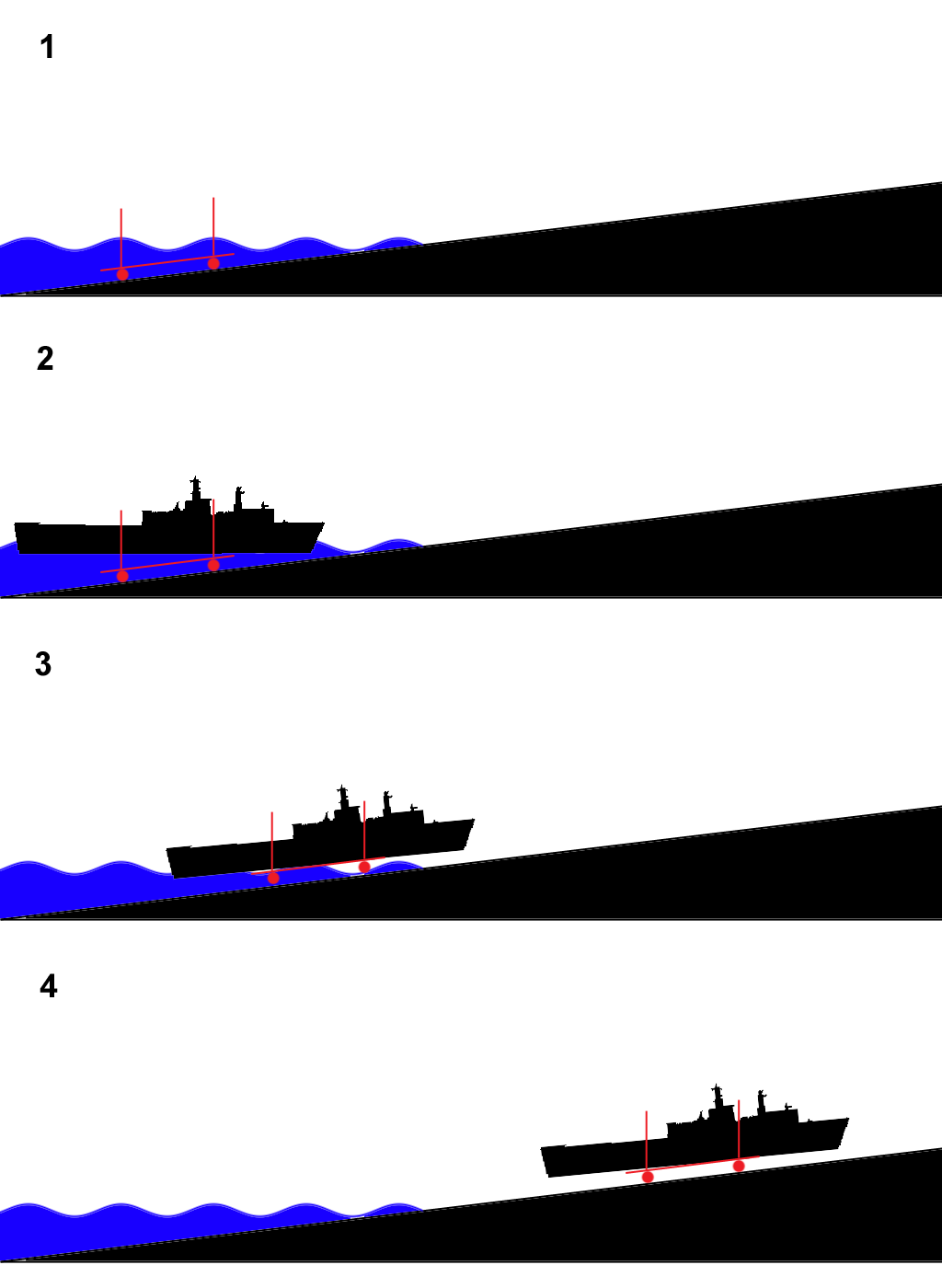 Image of the process of 'slipping' a vessel using a Patent slip. Created by myself User:Nick. This image features Image:Royal_Navy_Albion_silhouette.png by User:Gdr which is also licenced under a GDFL licence.